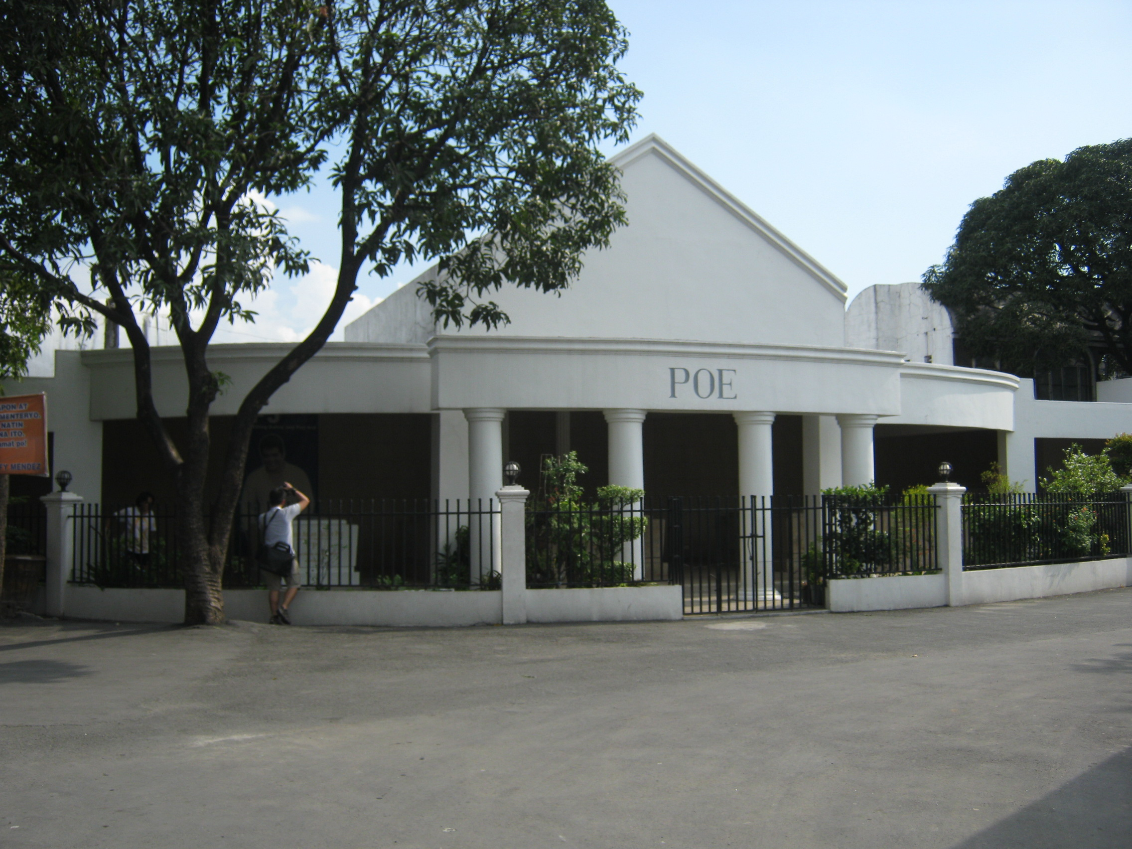 Manila North Cemetery Sta Cruz, Manila